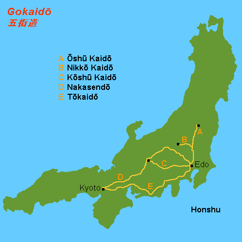 Map over historical Gokaido, Japan, own work composed from various mapreferences